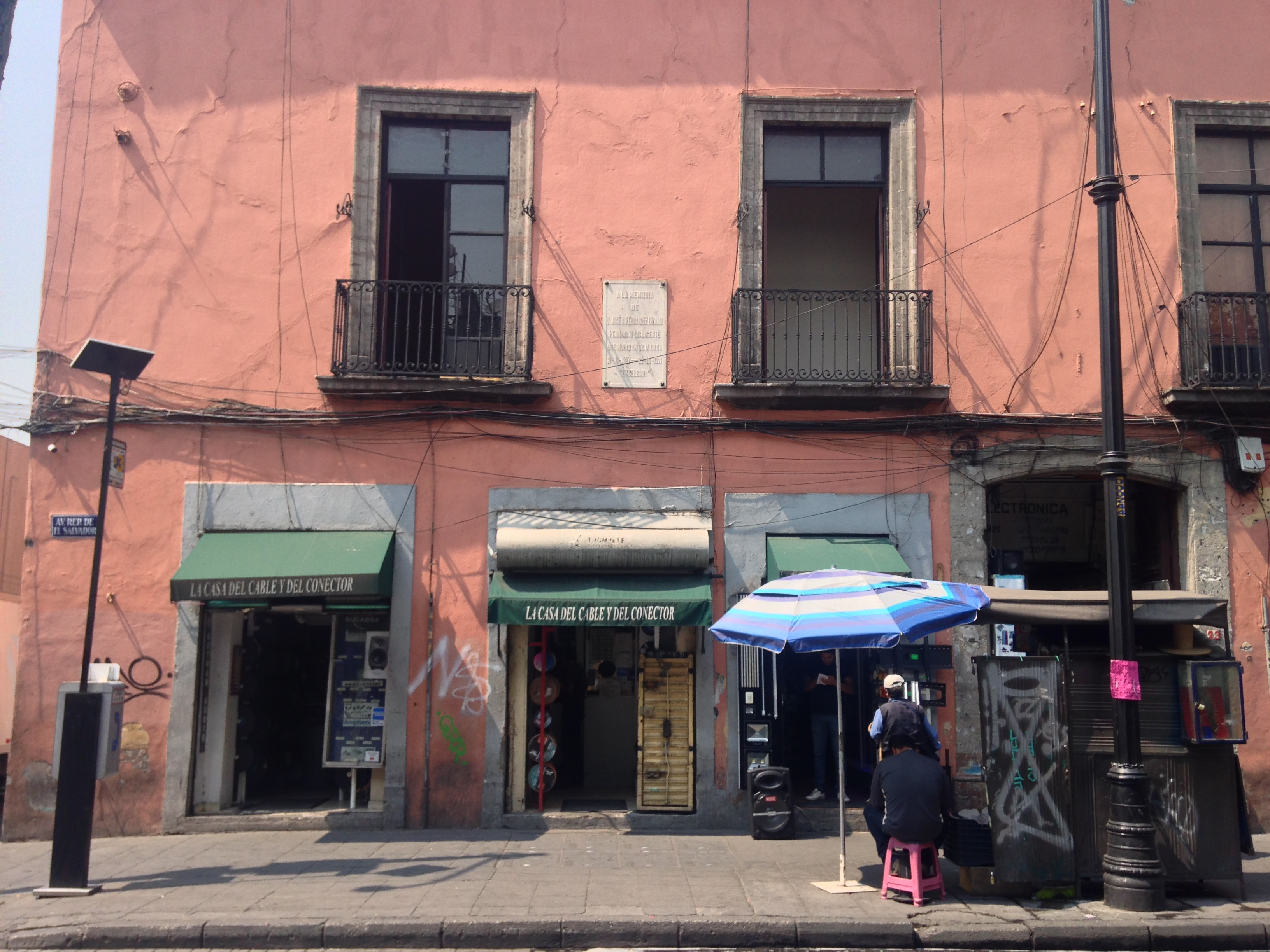 House were José Joaquín Fernández de Lizardi died, República del Salvador street, Mexico City